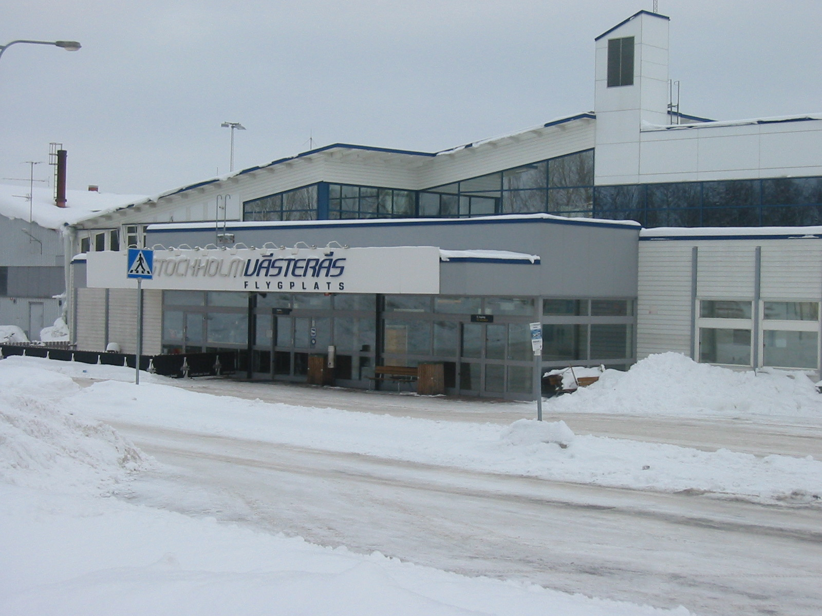 Stockholm-Västerås Airport from the parking lot.